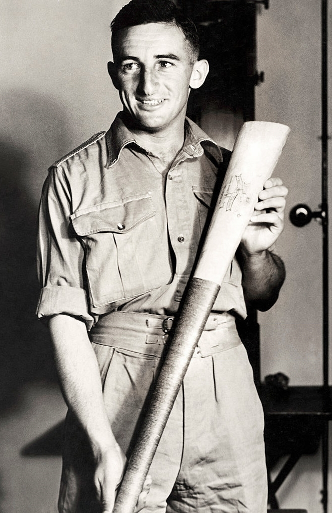 Australian cricketer Jock Livingston with a Samoan cricket bat during Army service, circa 1942.